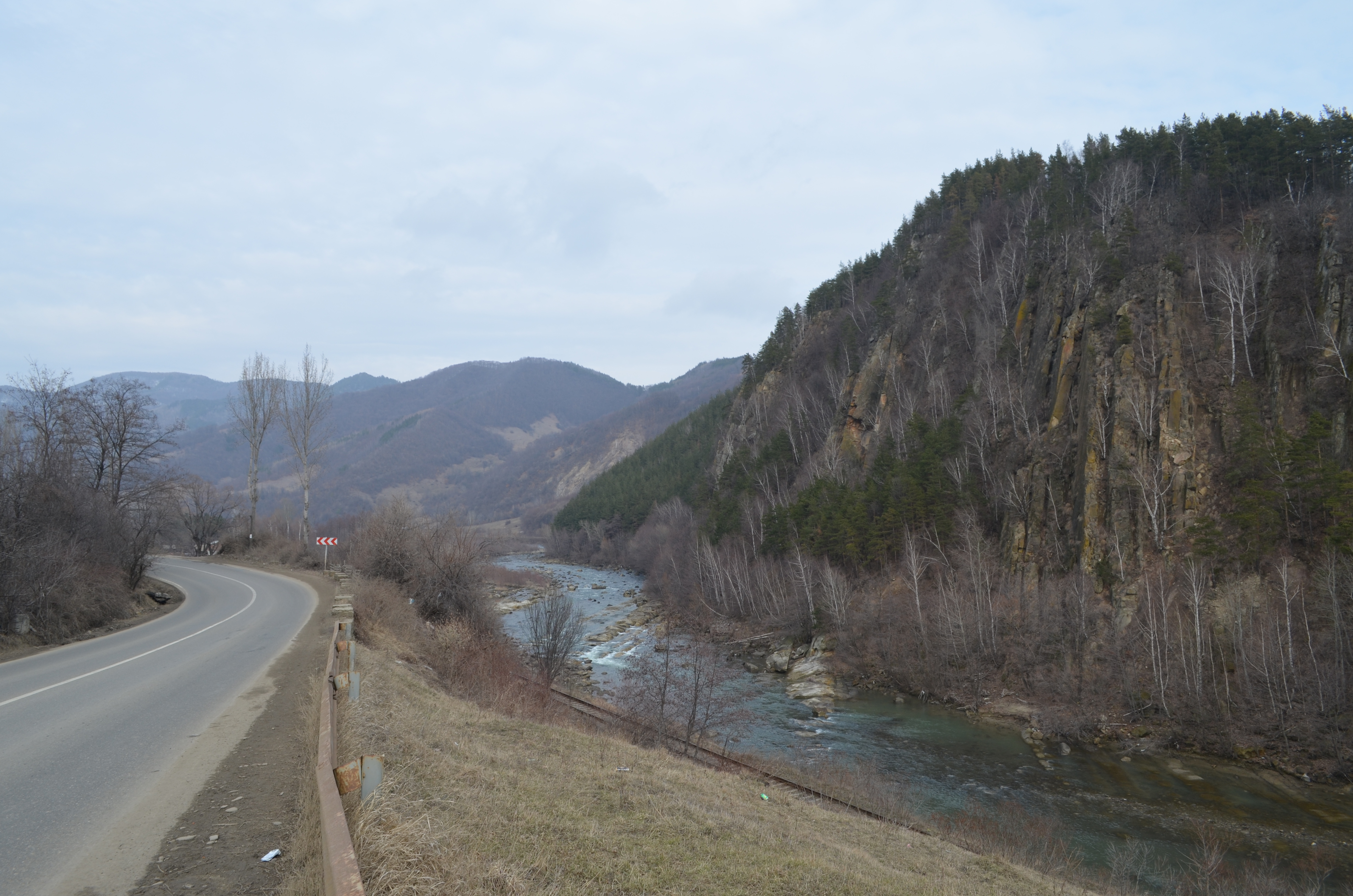 Buzău River, Buzău-Nehoiașu railway and DN10 road